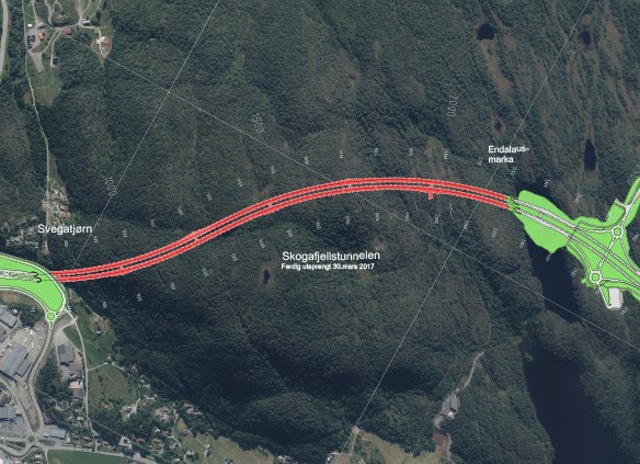 Skogafjellstunnelen, sketch of tunnel project